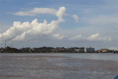 small picture river mahakam at samarinda